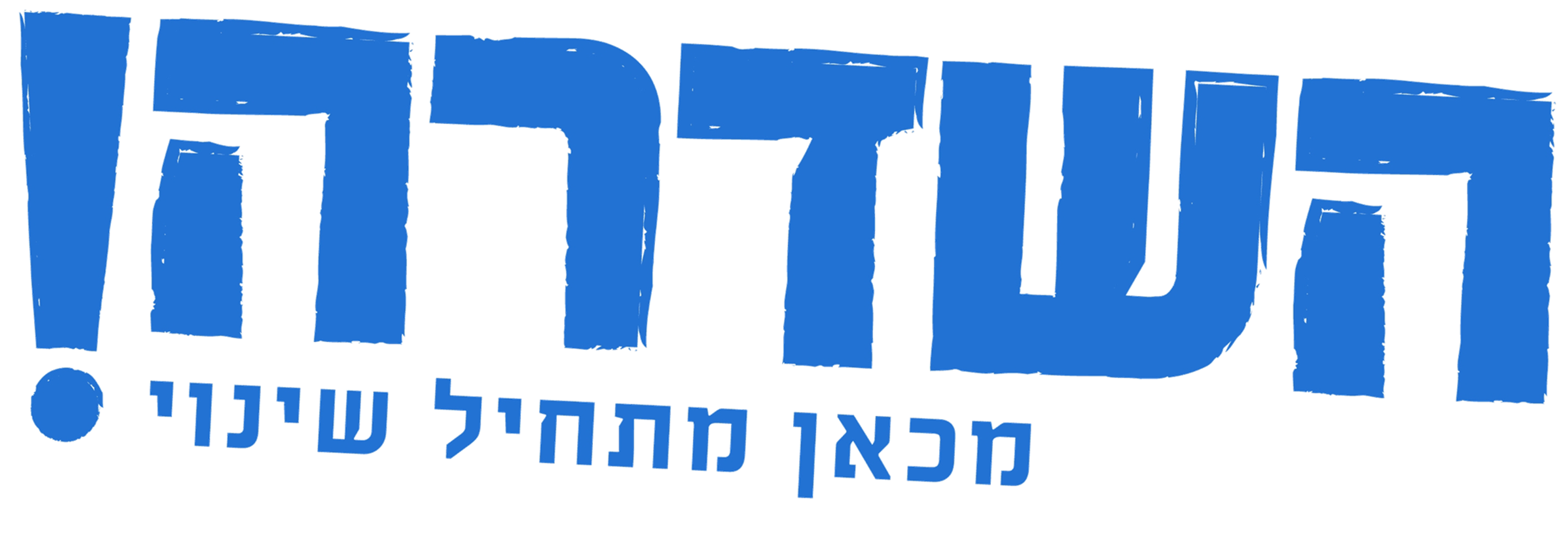 HASDERA LOGO